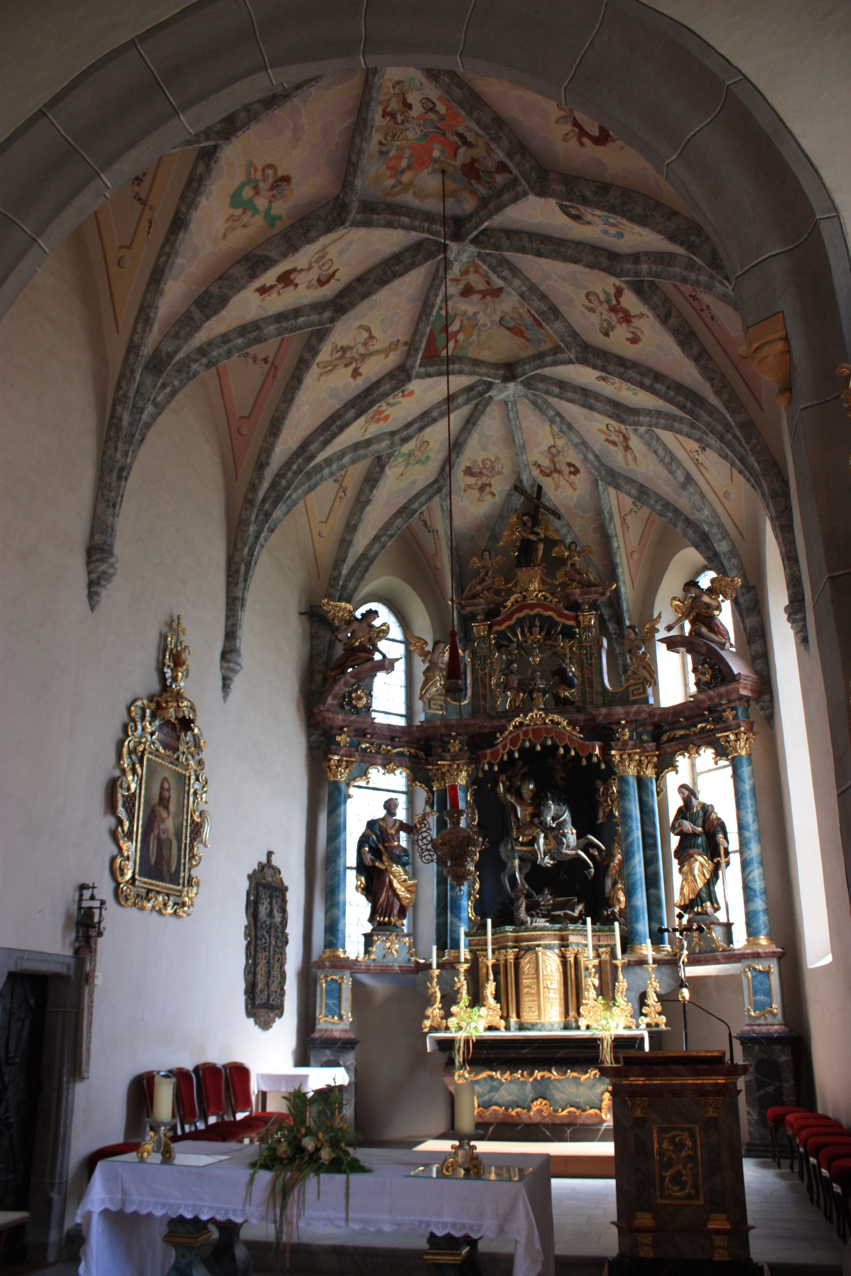 Parish church Saint George - Interior Locality: Feistritz an der Drau Community:Paternion